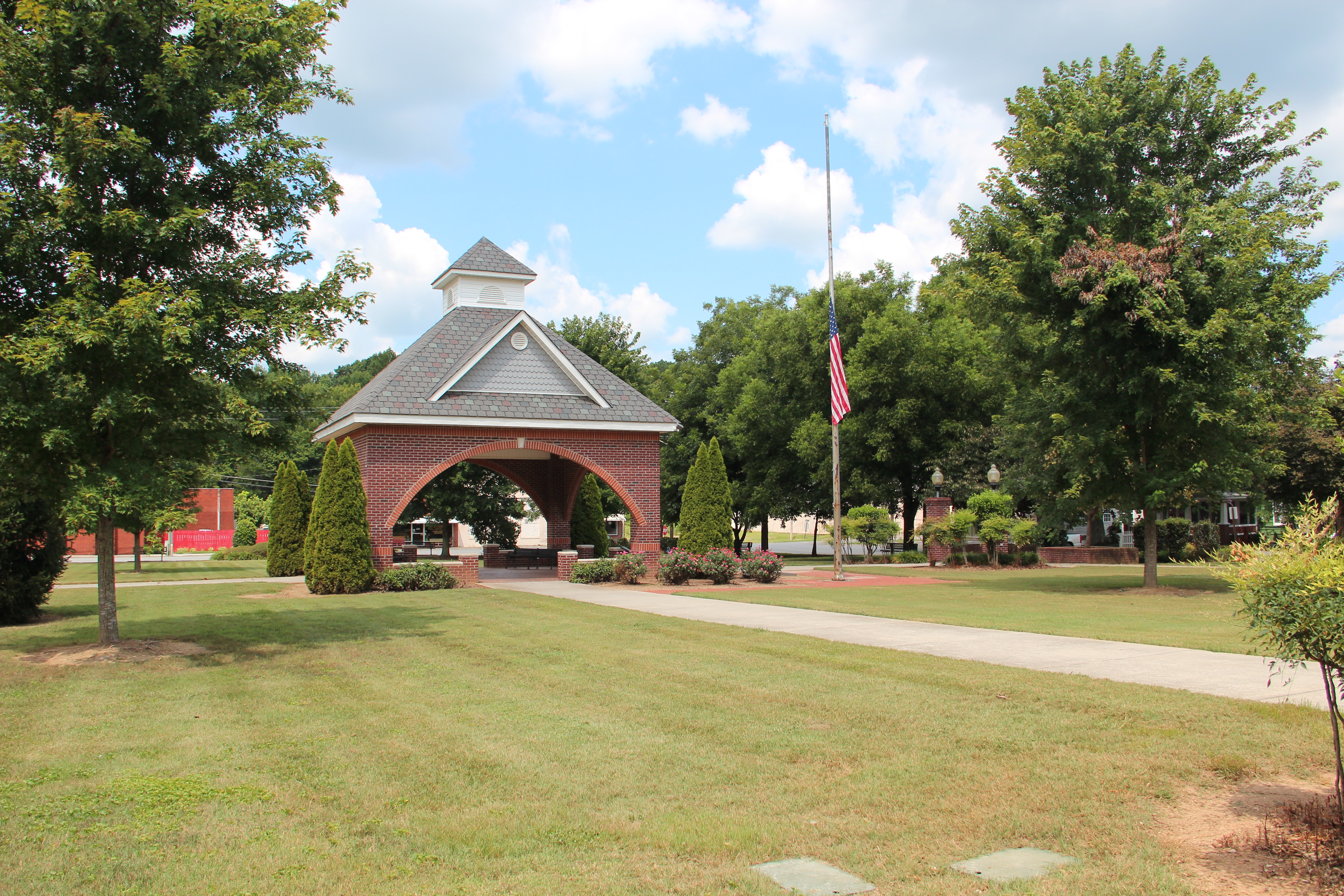 Tate Park in Fairmount, Georgia